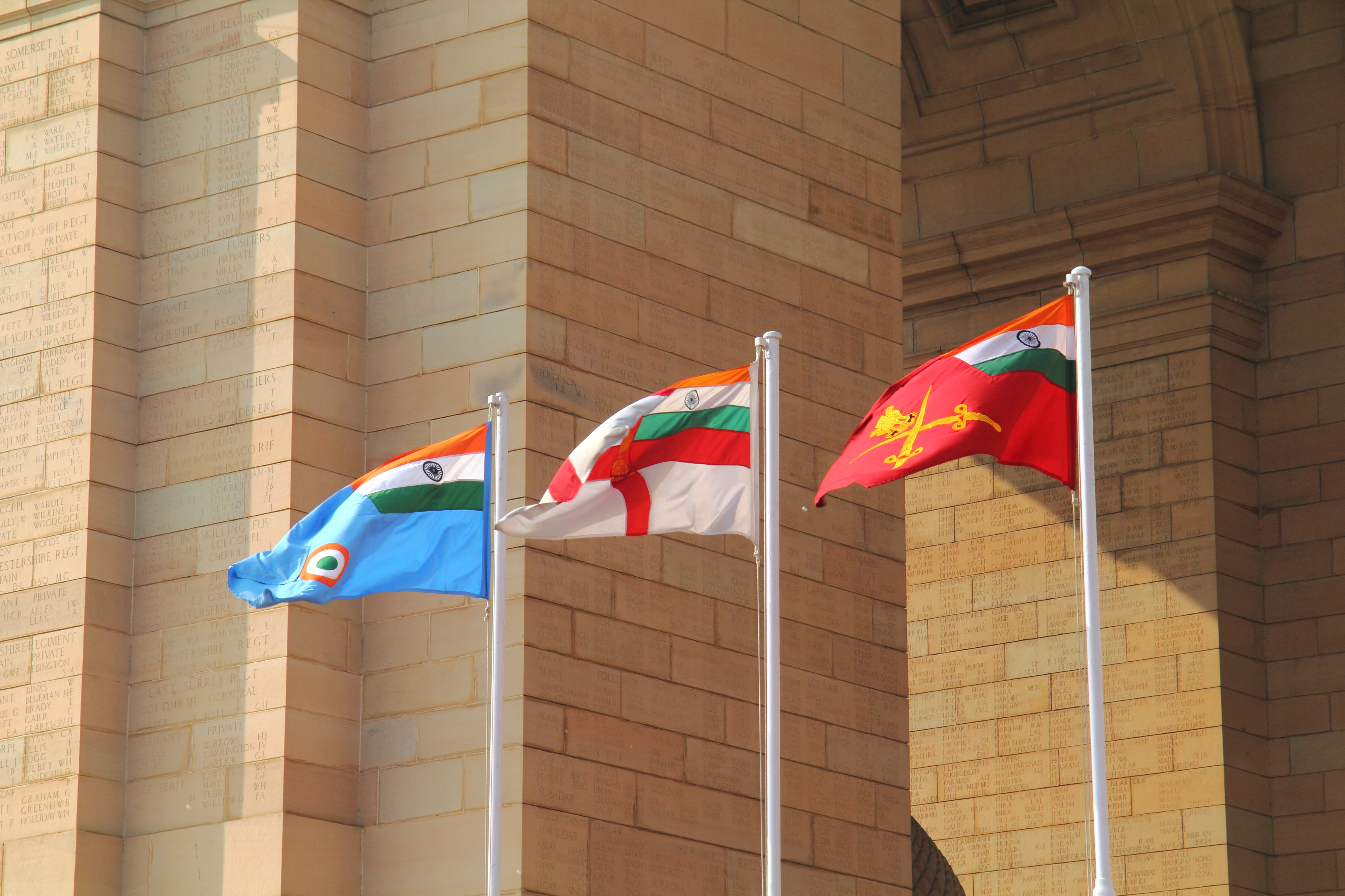 New Delhi, India: India Gate